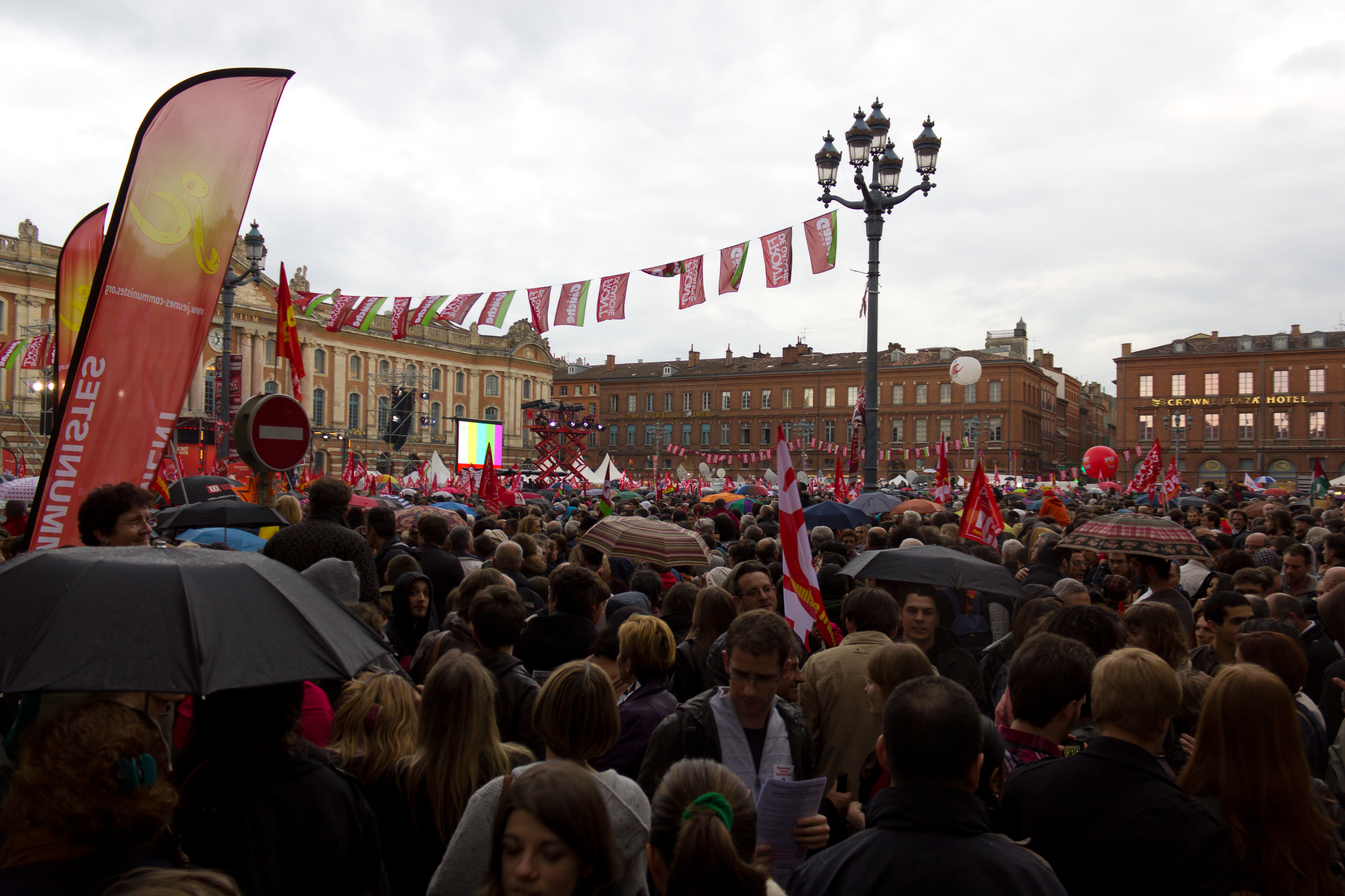 Political rally of Jean-Luc Mélenchon on place du Capitole in Toulouse on April 5th, 2012